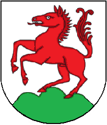 Coat of arms of Rossemaison, Canton of Jura, Switzerland